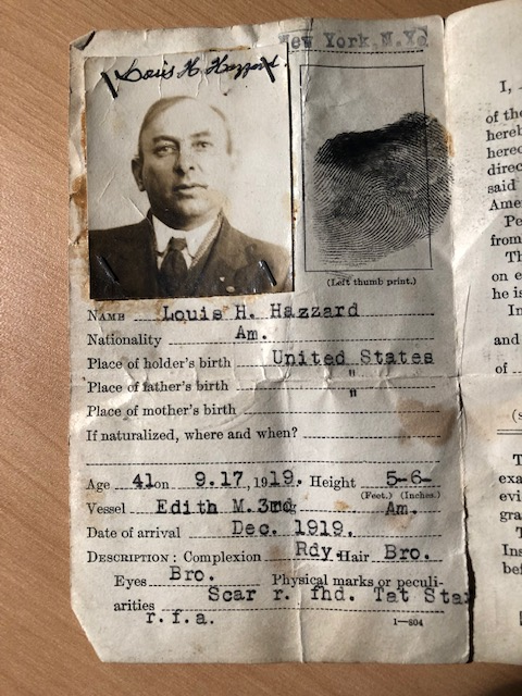 Citizen Seaman's Identification Card Cover issued 1920 belonging to Louis H. Hazzard, captain of Edith M III.